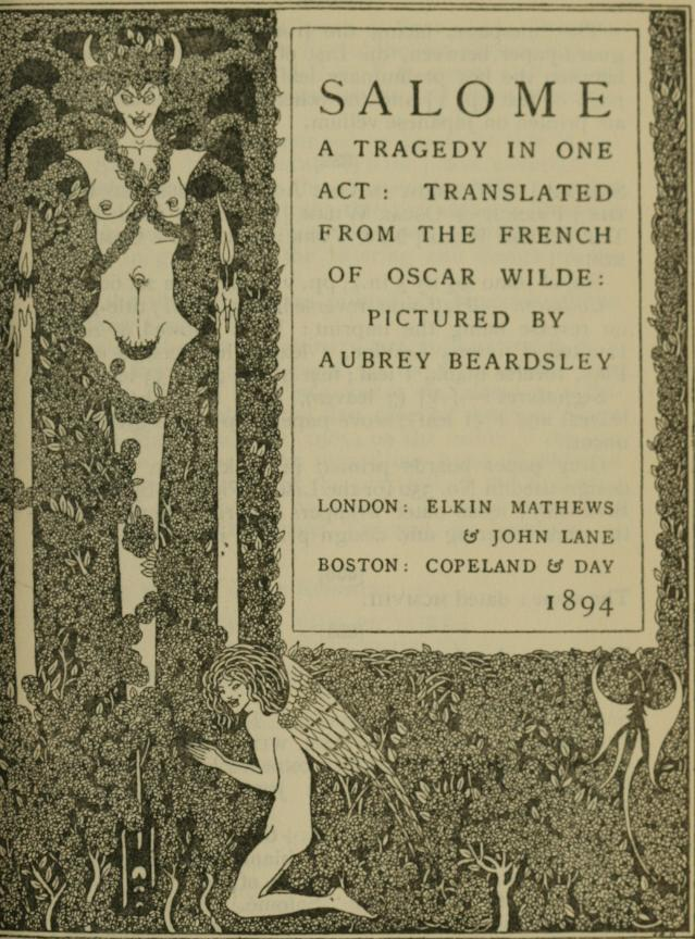 Book illustration